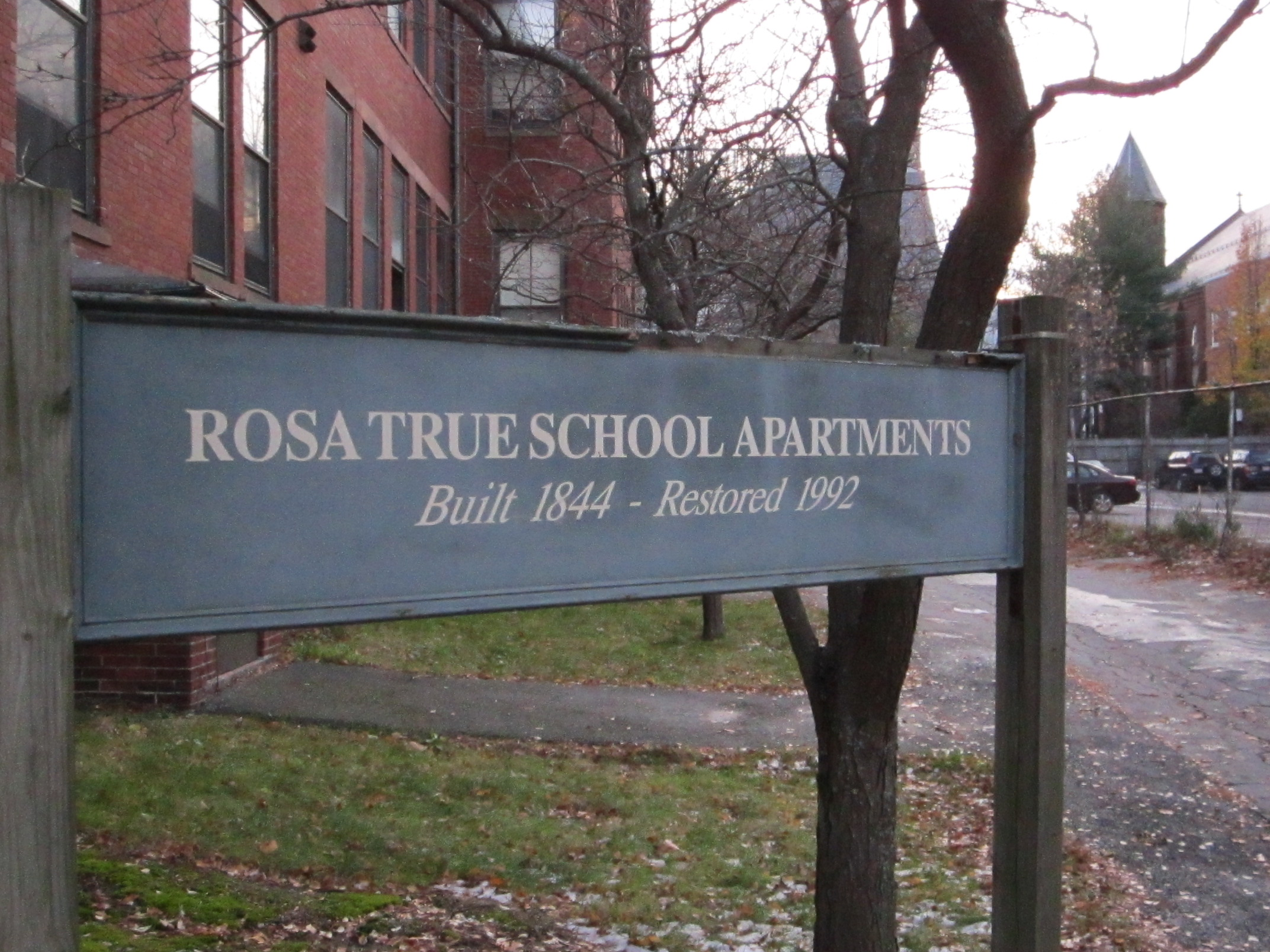 The Rosa True School Apartments in Portland, Maine